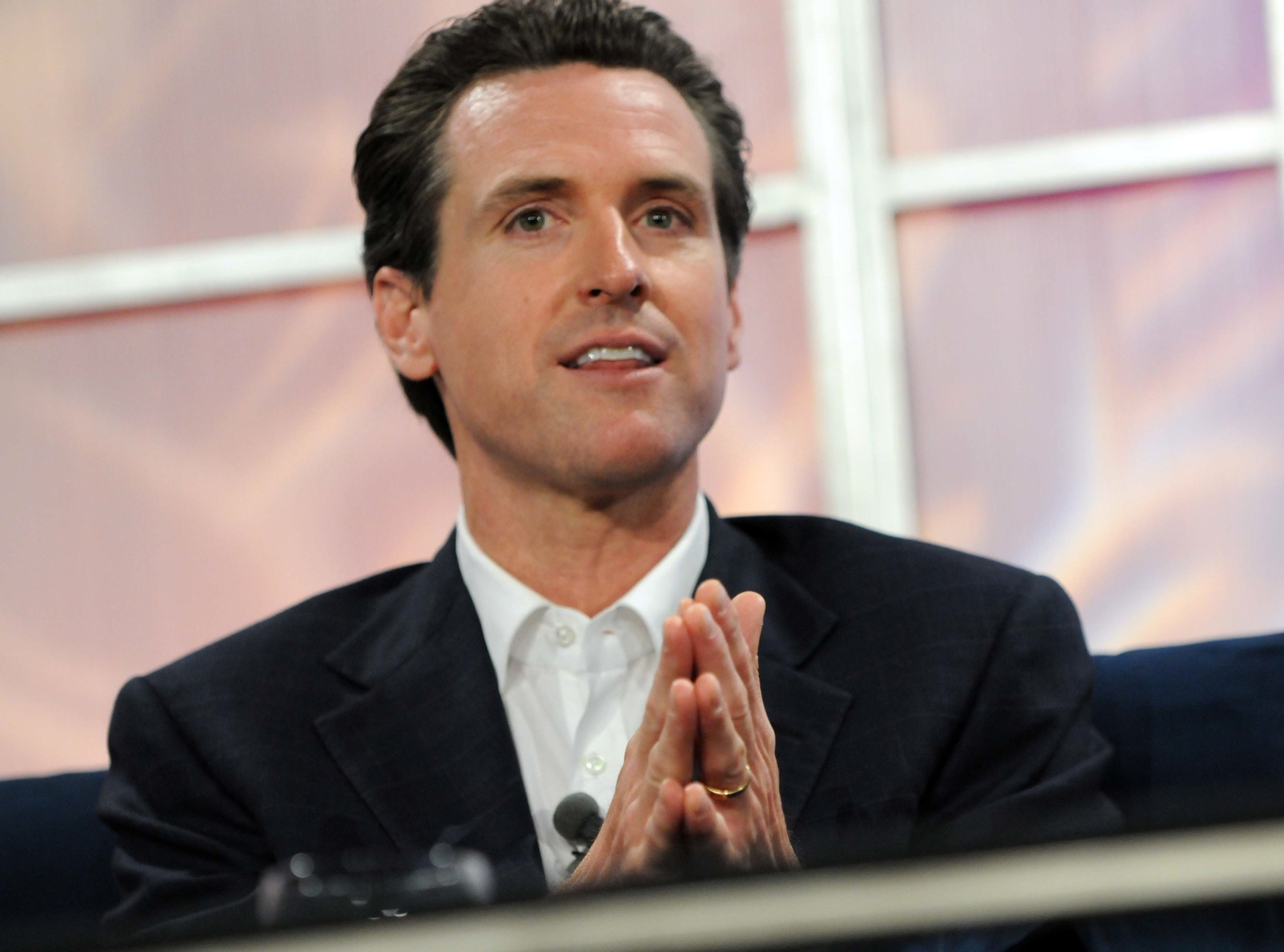 San Francisco Mayor Gavin Newsom at the Web 2.0 Summit. (CC) JD Lasica, socialmedia.biz. Noncommercial reproduction permitted. Please credit as shown.